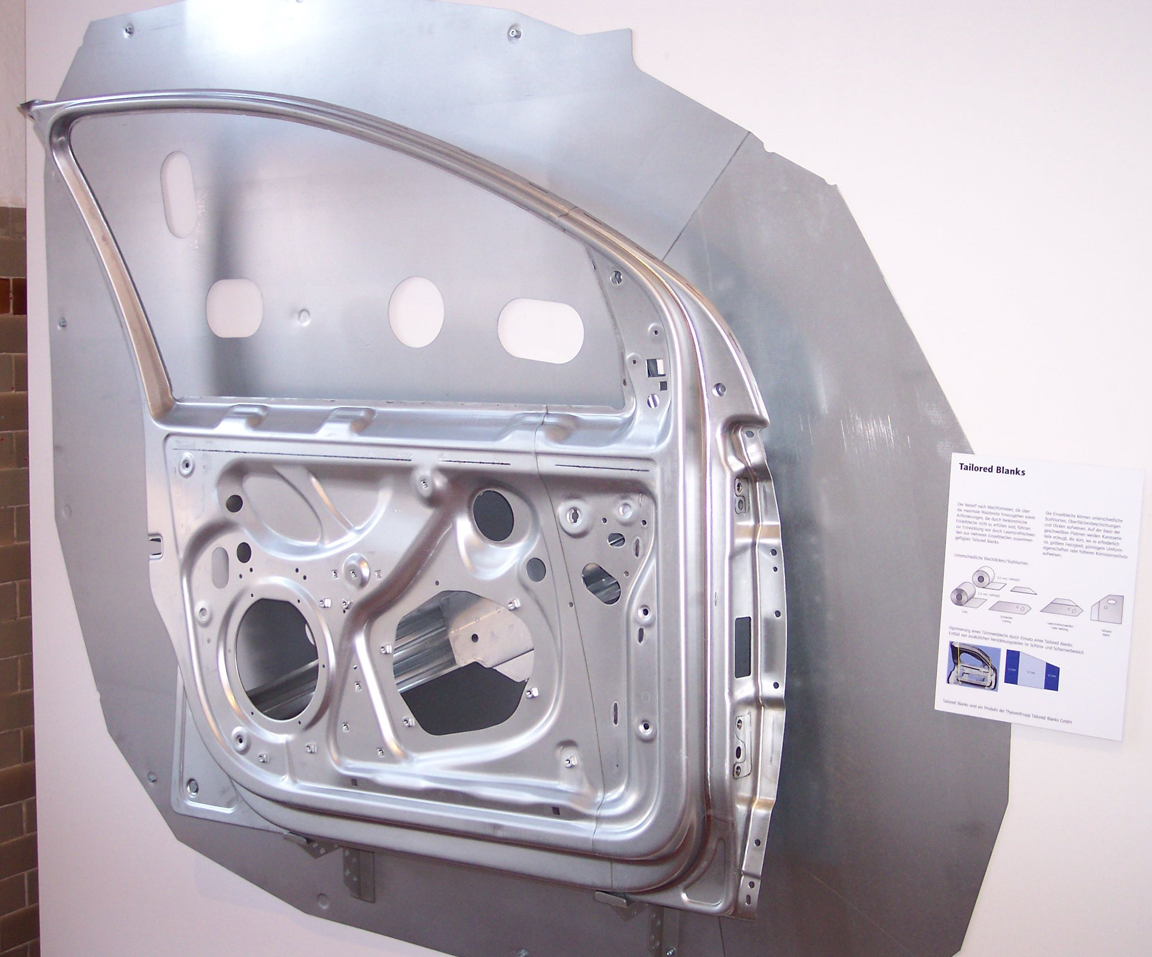 Tailored Blank Hoesch Museum